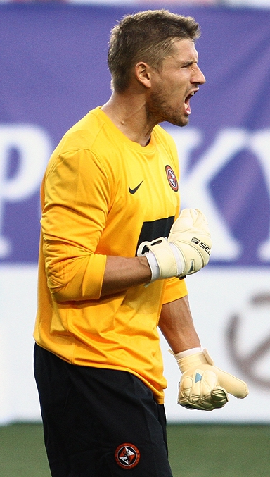 Radosław Cierzniak, player of Dundee United. Radosław Cierzniak, piłkarz Dundee United.